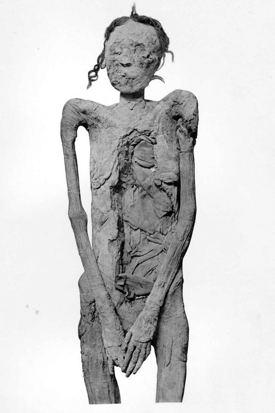 Mummy of Ahmose-Sitkamose, one of the Great Royal Wives of pharaoh Ahmose, found in DB320.